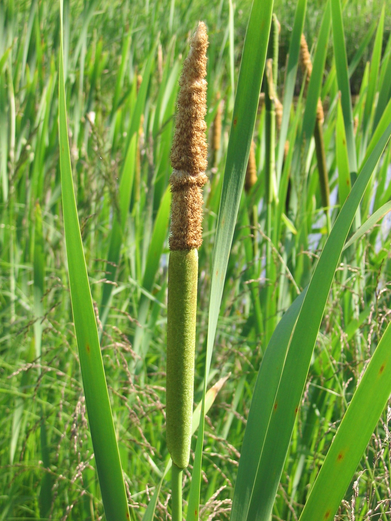 Typha_latifolia_2-eheep